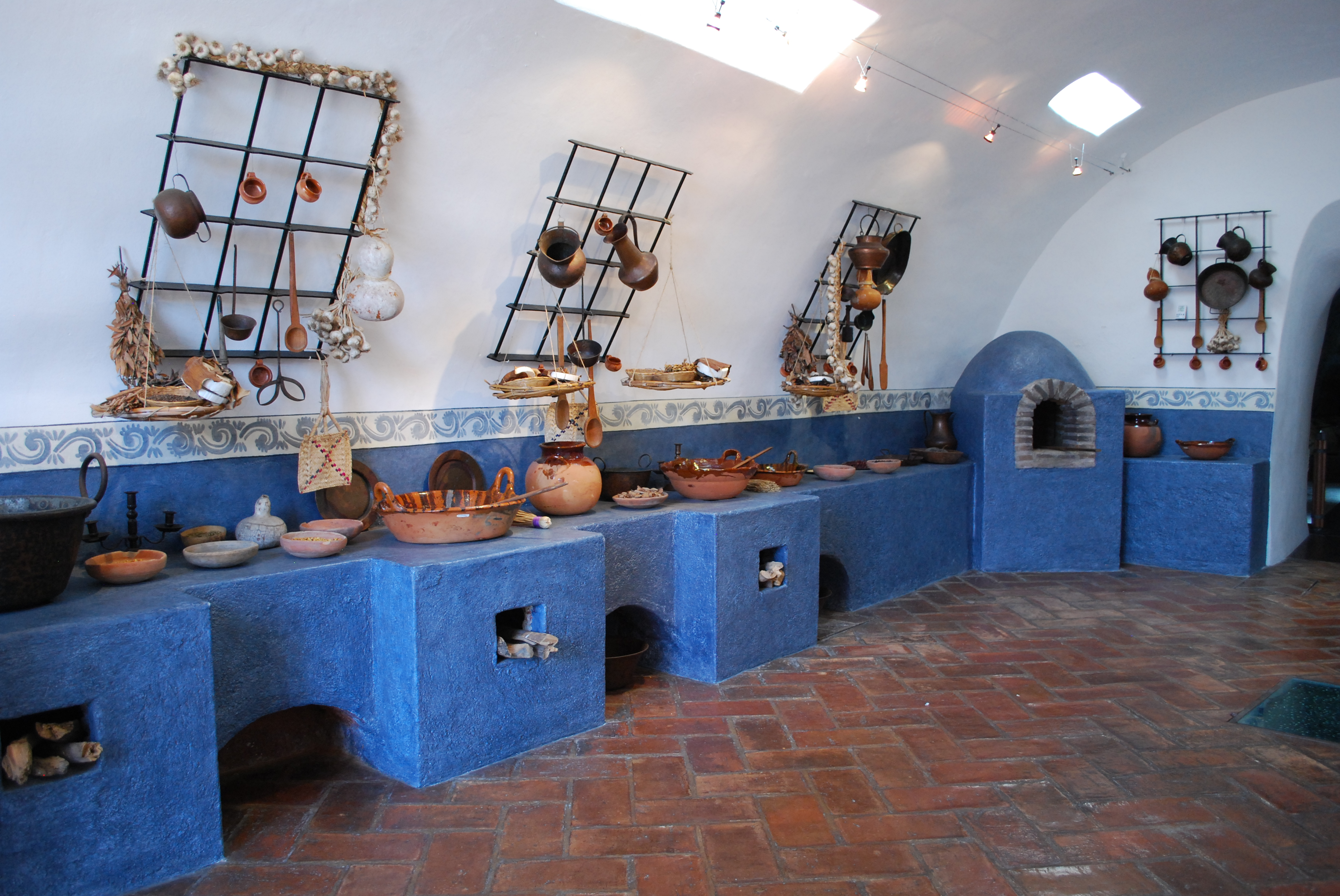 Kitchen area in the San Diego Fort in Acapulco, Mexico